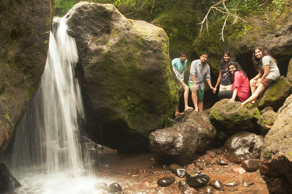 people at Pandav caves